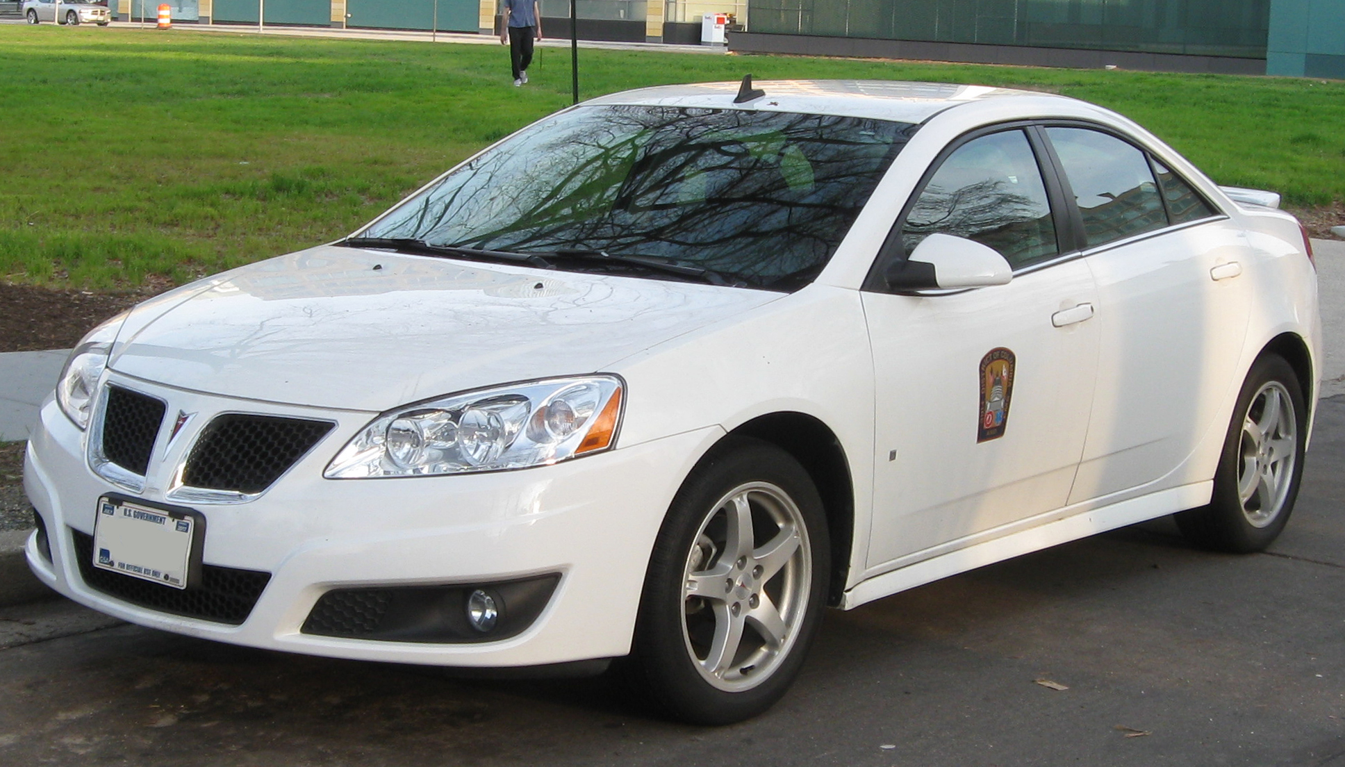 2009.5-2010 Pontiac G6 photographed in Washington, D.C., USA.